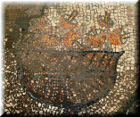 Mosaic of red mushrooms, found in the Christian Basilica of Aquileia in northern Italy. The section of the mosaic floor which displays these mushrooms is found in the oratory of the northern hall, which is the oldest part of the basilica, dating to before 330 AD.